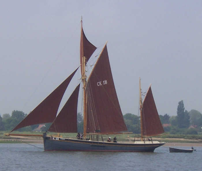 A sailing smack photographed near Brightlingsea, Essex, England. June, 2006